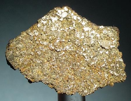 Tetrataenite Locality: Nuevo Mercurio, Zacatecas, Mexico (Locality at ) Size: 2.7 x 2.0 x 2.0 cm. Tetrataenite is an ULTRA-RARE, EXTRATERRESTRIAL iron nickel alloy, found ONLY meteorites. On the evening of December 15, 1978 a bright fireball was observed traveling over North Central Mexico. It exploded, raining down hundreds of small black stony meteorites into the desert and ranches near the small town of Nuevo Mercurio, Zacatecas. It is classified as an H5 chondrite and the sawed slab is VERY RICH in silvery-bright tetrataenite crystals.